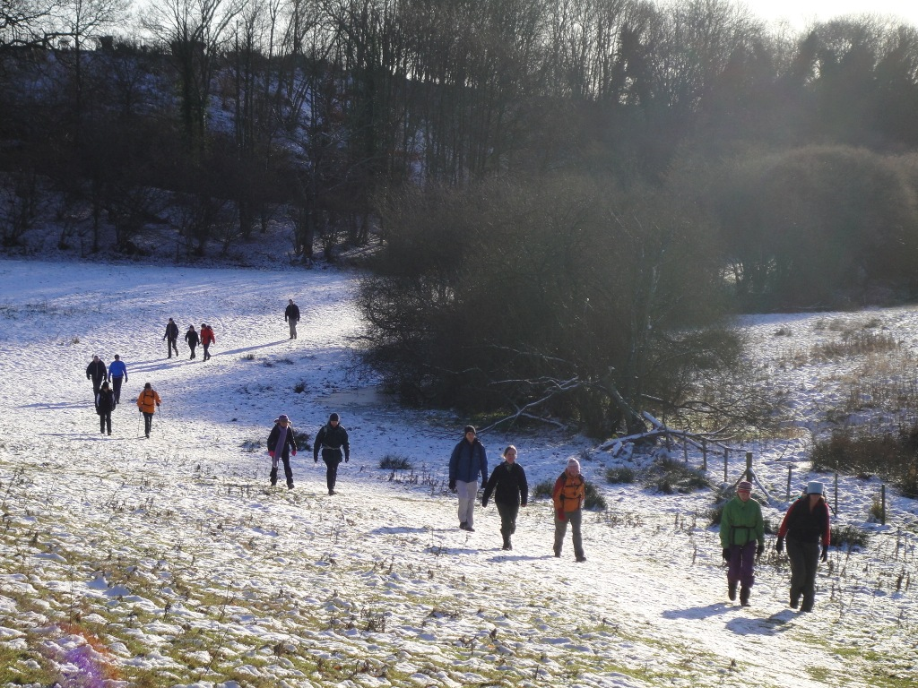 LDWA.